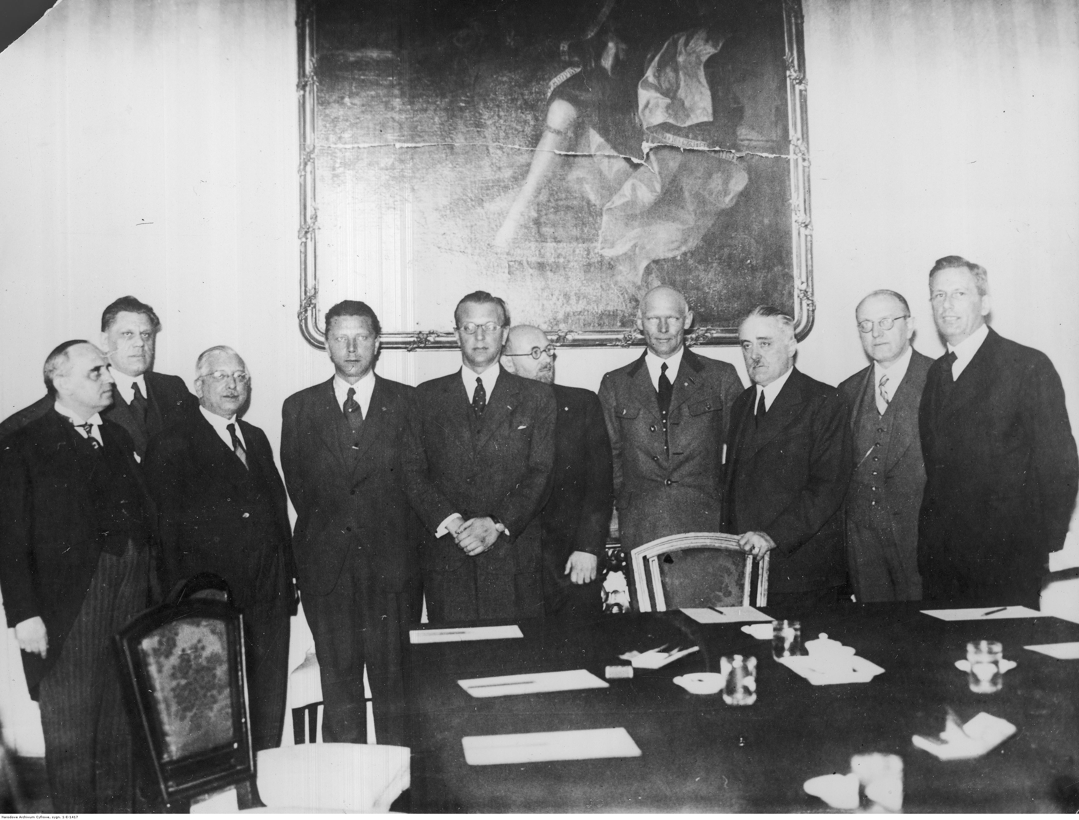 Standing from the left: 1 Michael Skubl, 2 Wilhelm Wolff, 3 Rudolf Neumayer, 4 Franz Hueber, 5 Arthur Seyss-Inquart, 6 Oswald Menghin, 7 Anton Reinthaller, 8 Edmund Glaise-Horstenau, 9 Hugo Jury and 10 Hans Fischbock.